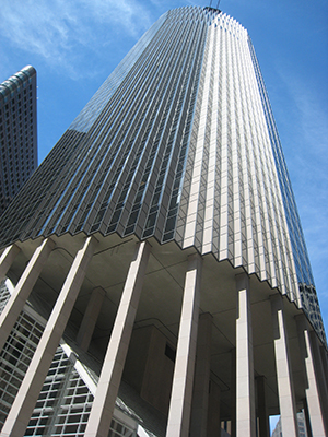 Ken Papai, fair use to image is OK, photo by K. Papai